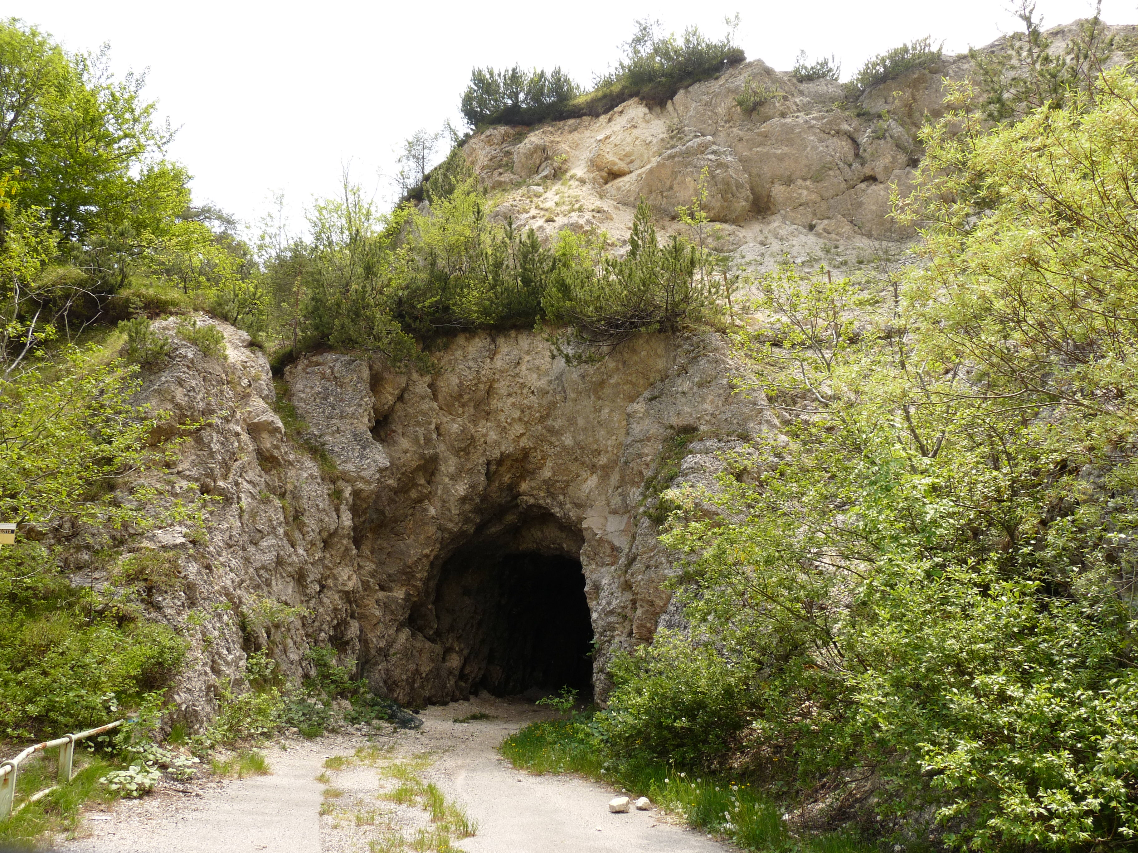 Centa San Nicolò (Italy): the old tunnel at Valico della Fricca (next to the new one), now in disuse.